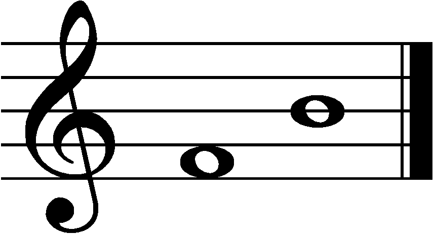 Koobak 18:11, 19 July 2006 (UTC) Tritone